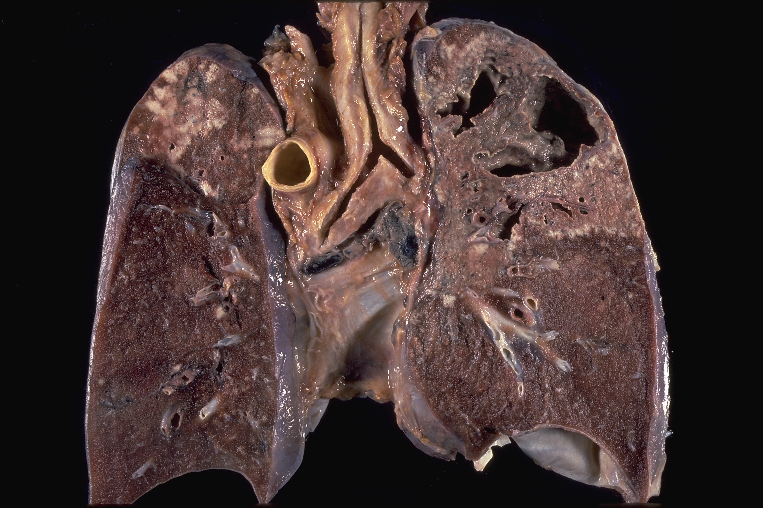 Cavitary tuberculosis Extensive necrosis with cavitation, usually occurring in the upper lung or apex, is a characteristic feature of "secondary" or "adult type" tuberculosis. This is probably related to pre-existing hypersensitivity to M. tuberculosis resulting from a prior primary infection. Cavities form when necrosis involves the wall of an airway and the semi-liquid necrotic material is discharged into the bronchial tree from where it is usually coughed up and may infect others. This infected material may seed other parts of the lung via the airways to produce a tuberculous bronchopneumonia. If swallowed, infection of the G.I. tract may result. Communication of the centers of the tuberculous lesions with the airway exposes the bacteria to a high concentration of oxygen and promotes their proliferation. The risk of spread of infection to non-infected persons from individuals with cavitary tuberculosis is very high.